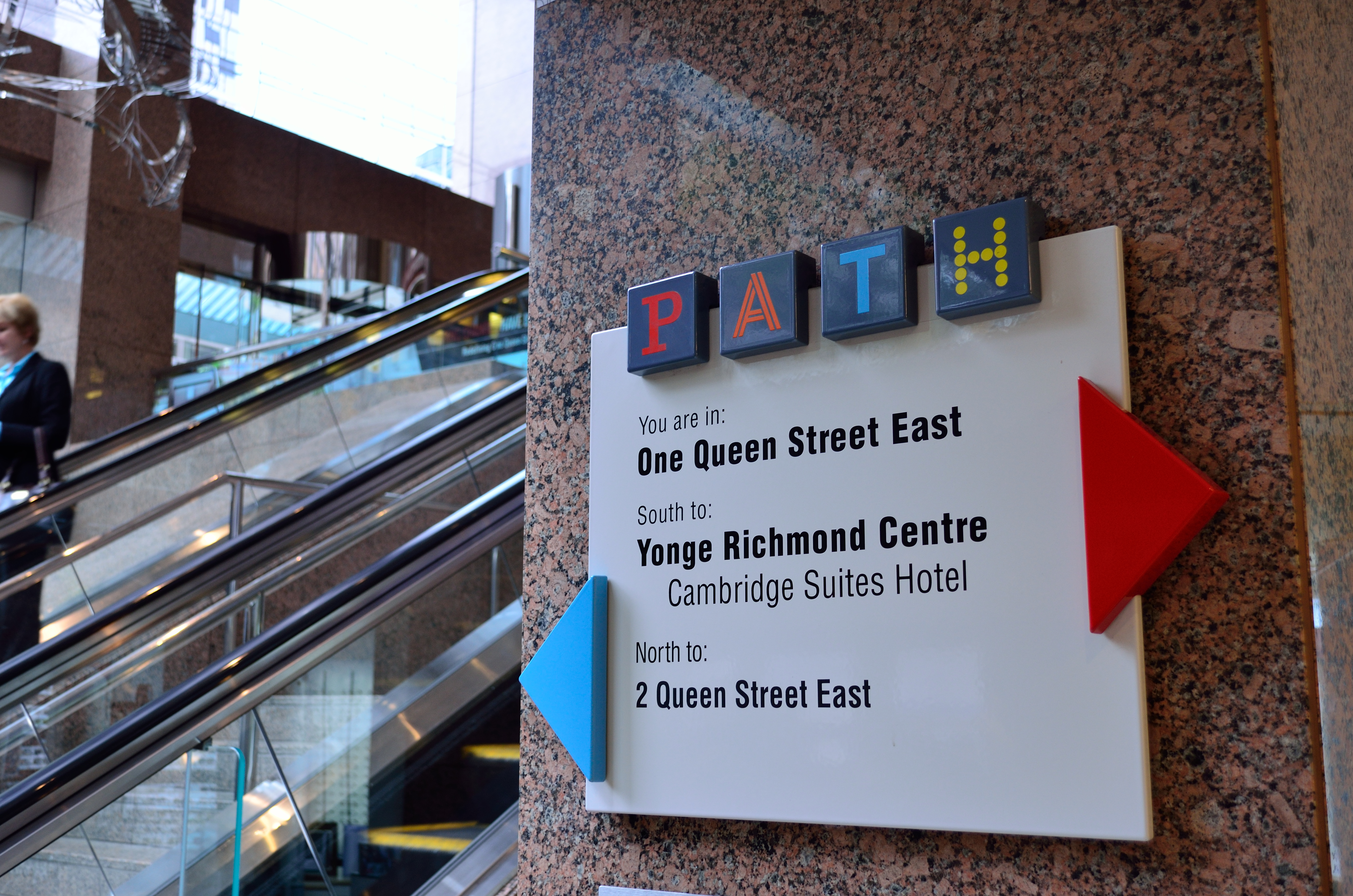 PATH: One Queen Street East.